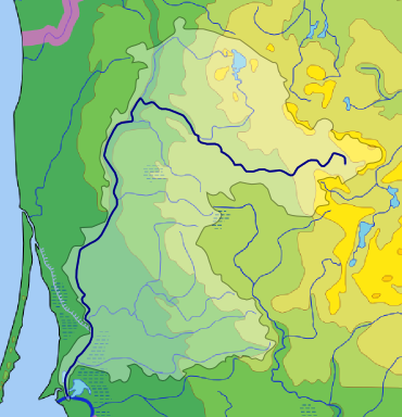 Minija basin / catchment area of Minija in relation to the Neman